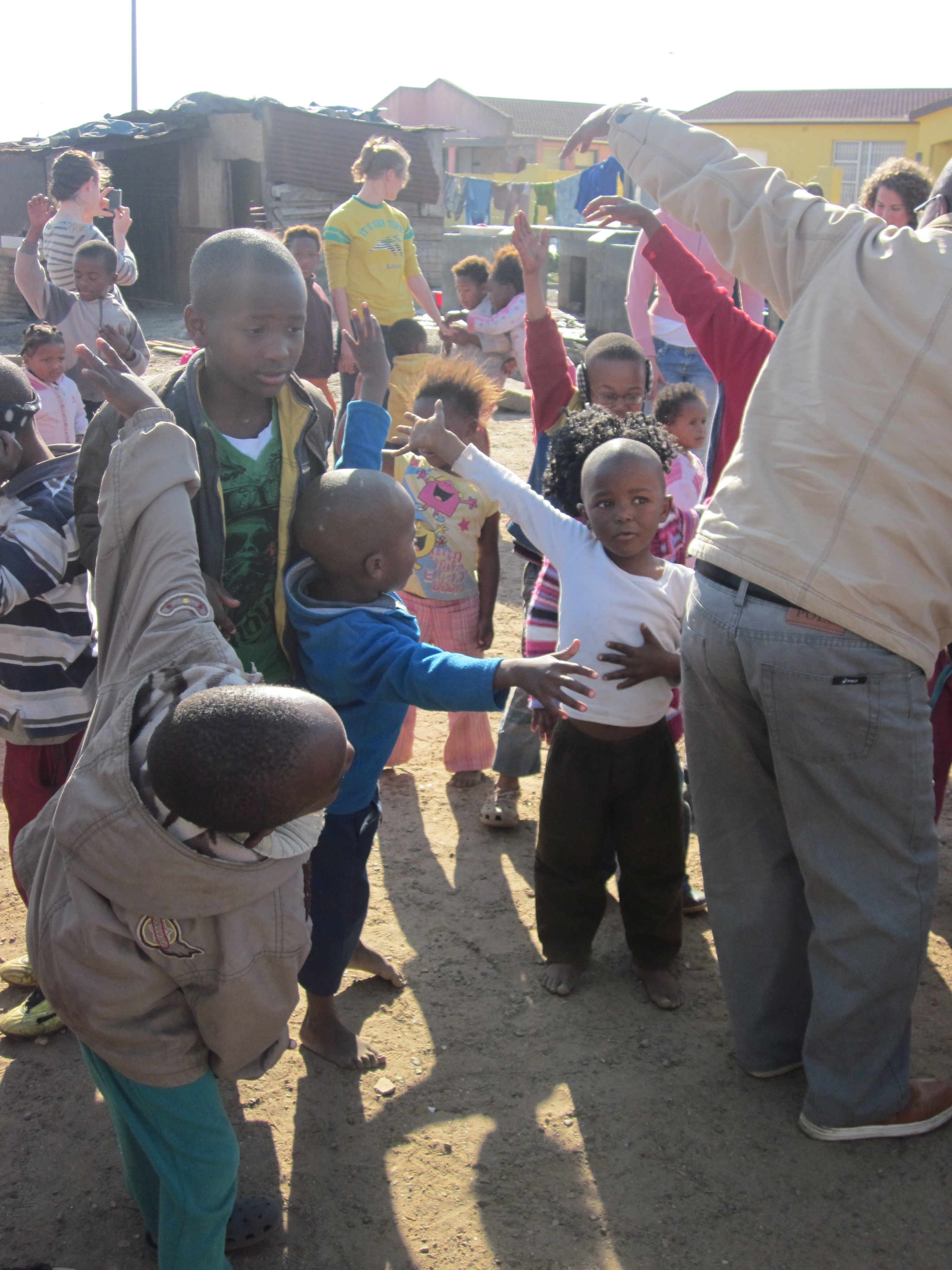 Kids in the township near Cape Town in 2011